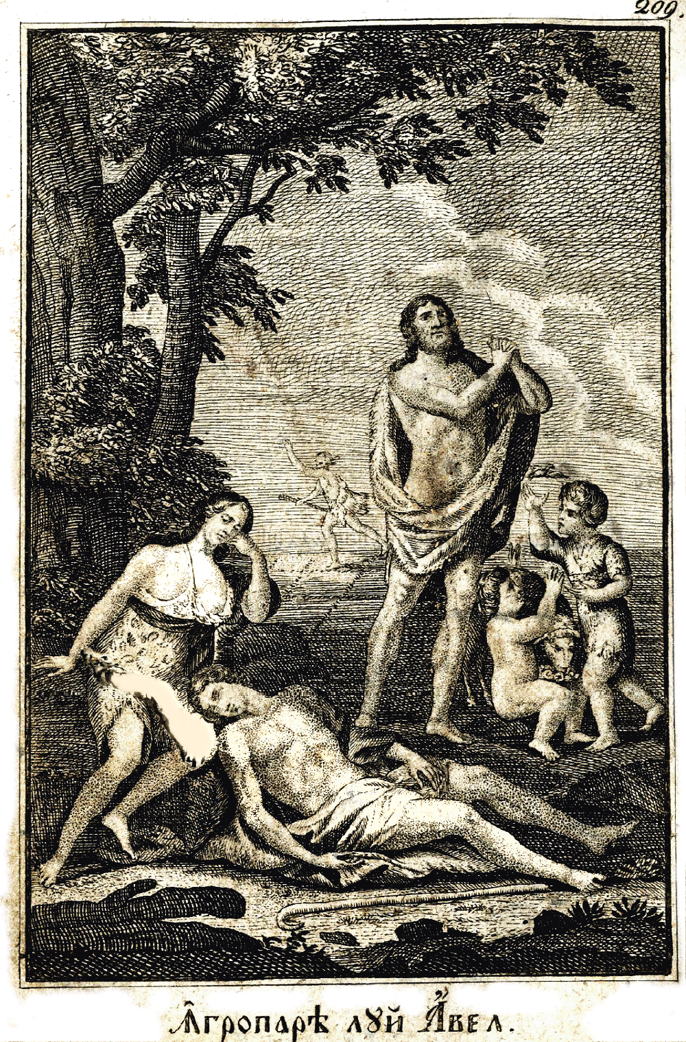 "Abel's Burial" (Romanian Cyrillic: Ꙟгрoпaрѣ лȢй Aвєл, transl. Îngroparea lui Avel), illustration to Salomon Gessner's Der Tod Abels, from the 1818 translation by Alecu Beldiman; printed by the Hungarian University press in Buda, and presumably edited by Zaharia Carcalechi.